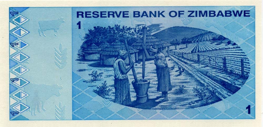 $1 Zimbabwe 2009 Reverse